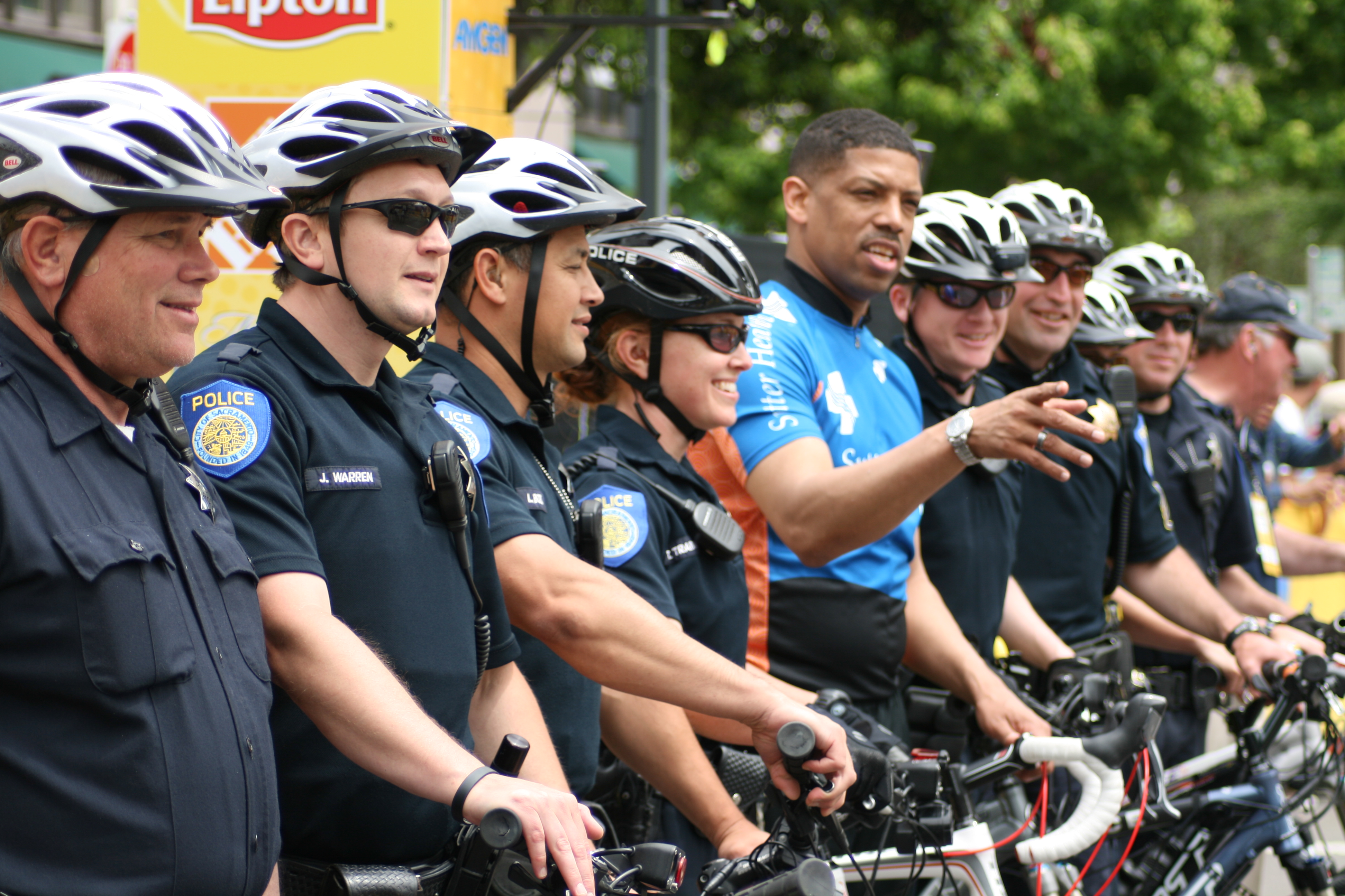 Sac Mayor Kevin Johnson poses with the PD Bike Patrol after the Sacramento Grand Prix bike race, Sunday May 16, 2010.